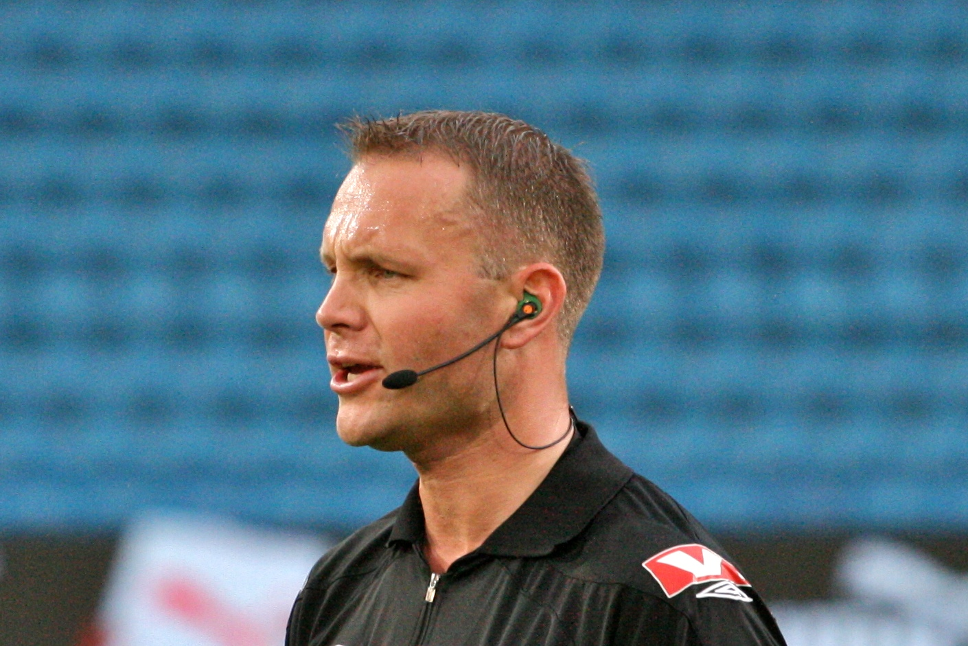 Ken Henry Johnsen, Norwegian football referee